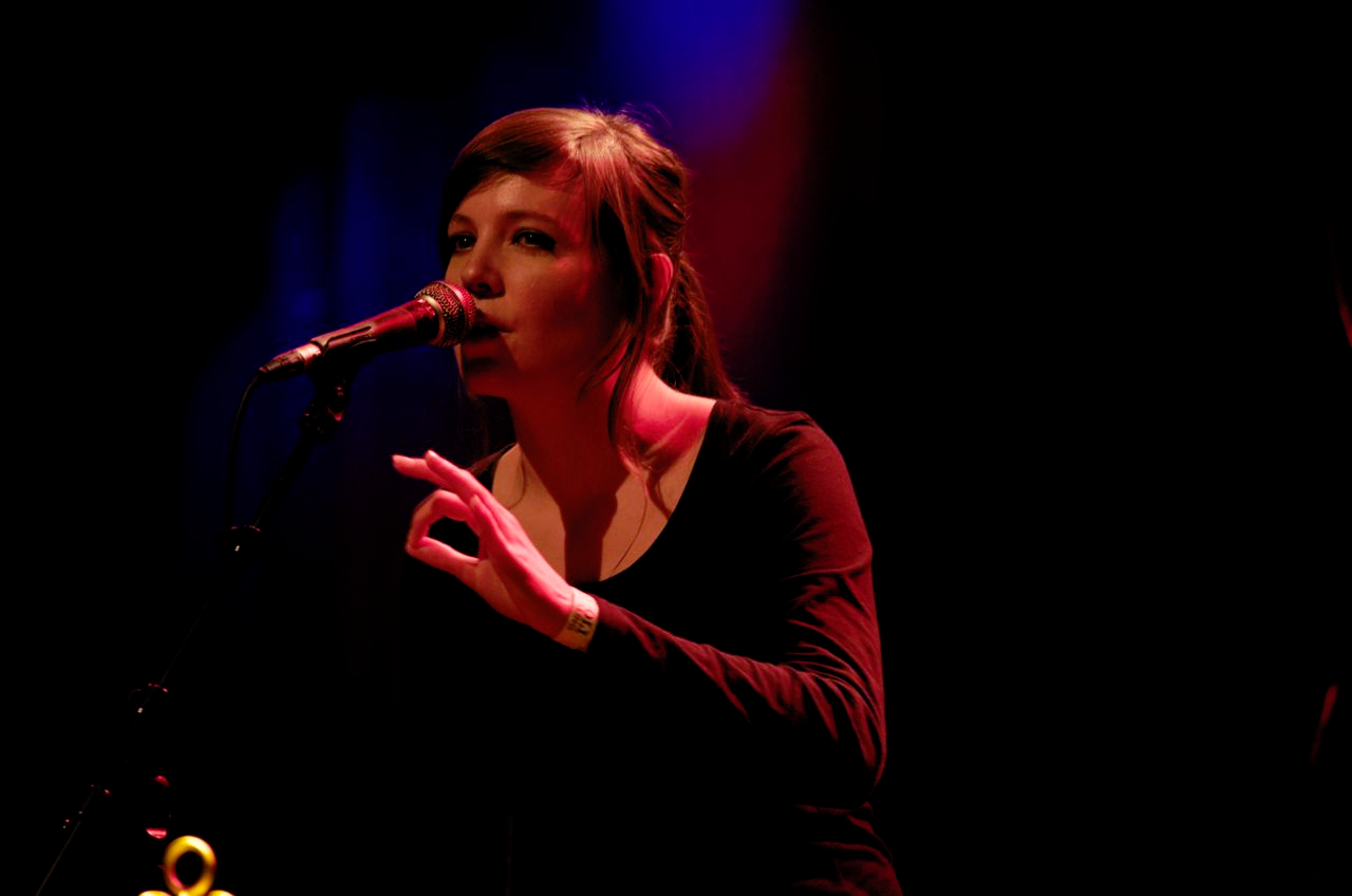 Ellen Deckwitz at the national championship of poetry slam